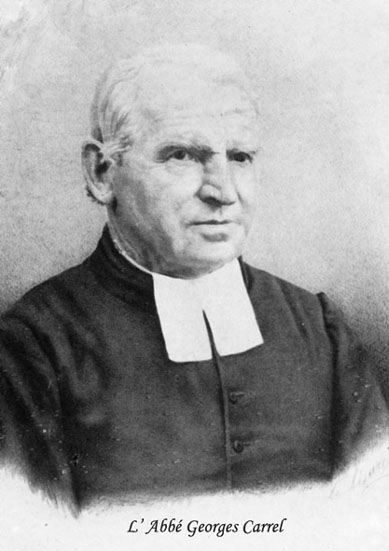 Georges Carrel (1800-1870), botanich